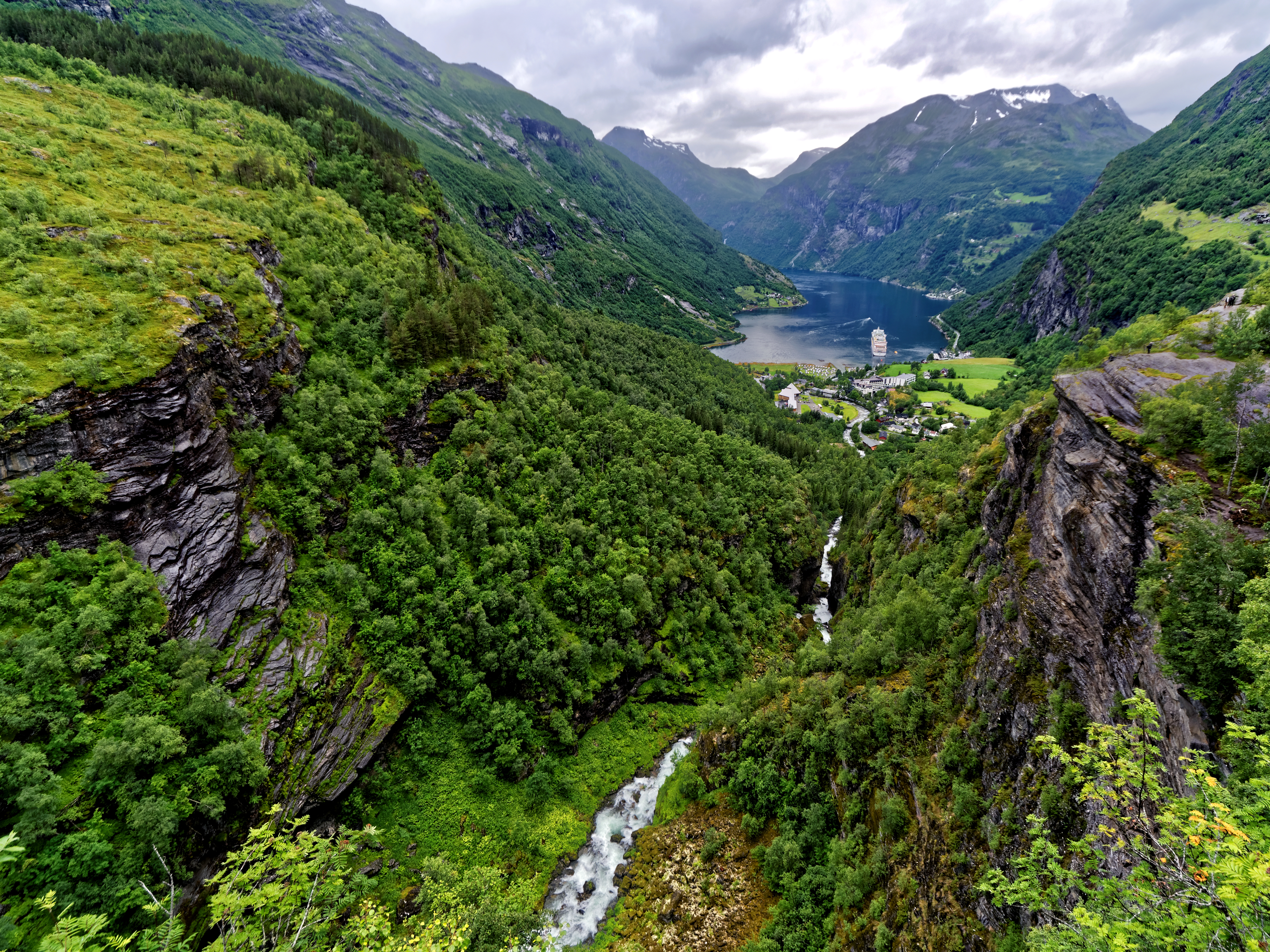 Geiranger in Norway.